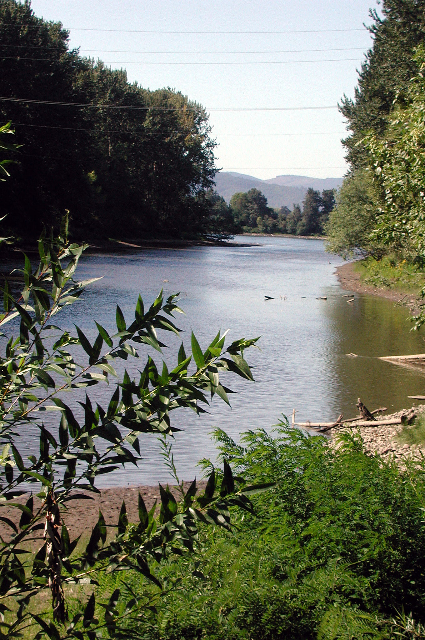 Columbia Slough just above its confluence with the Willamette River, in the distance. Photo taken from a public canoe-launching site in Kelly Point Park.